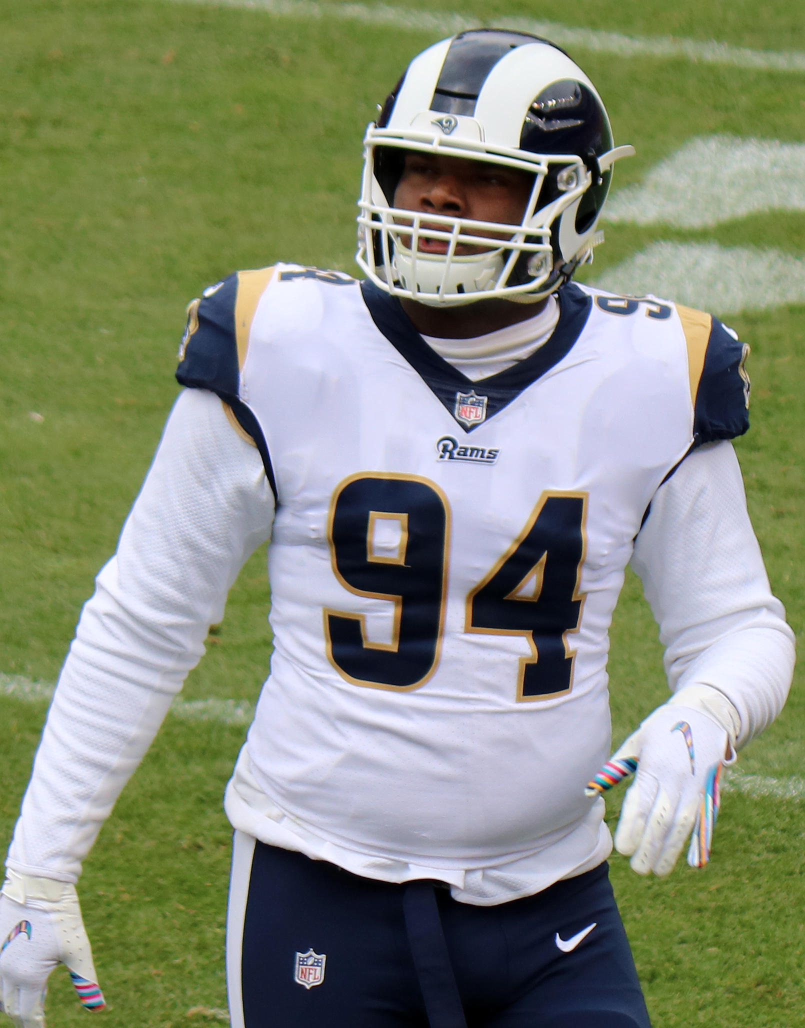 John Franklin-Myers, a National Football League player.